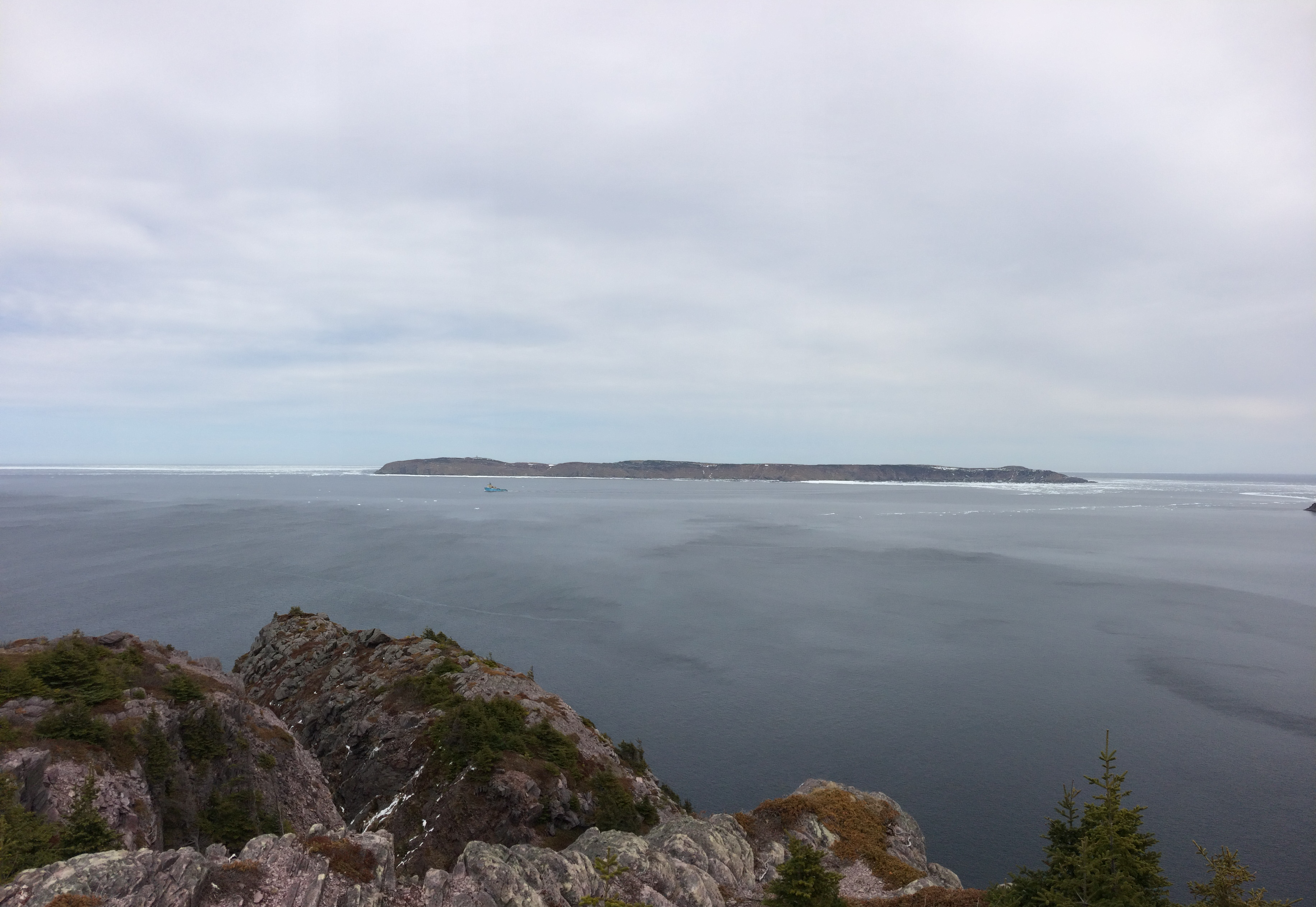 Iceberg off off Baccalieu Island Ecological Reserve